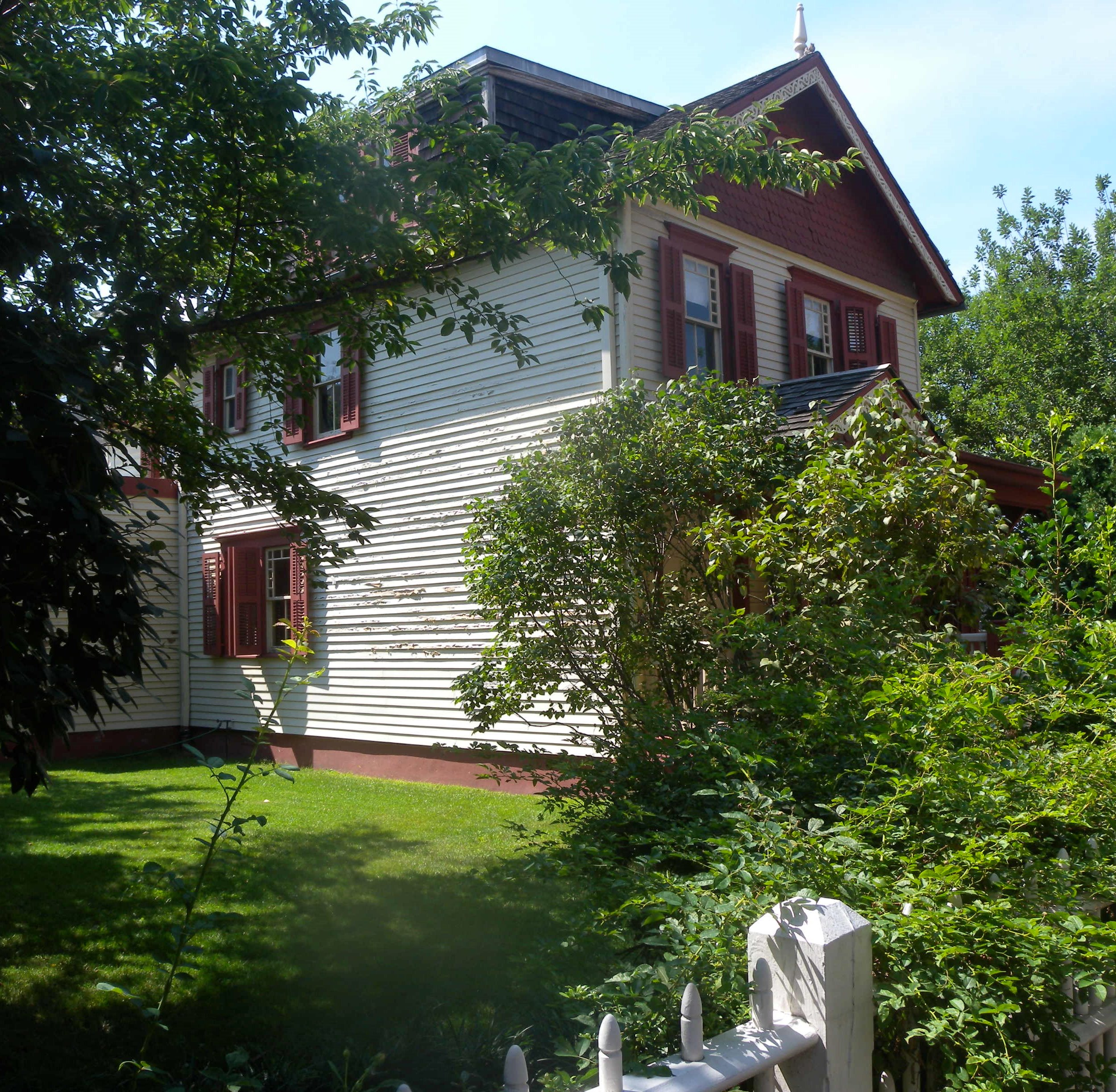 Looking northwest at Latimer house on a sunny midday.